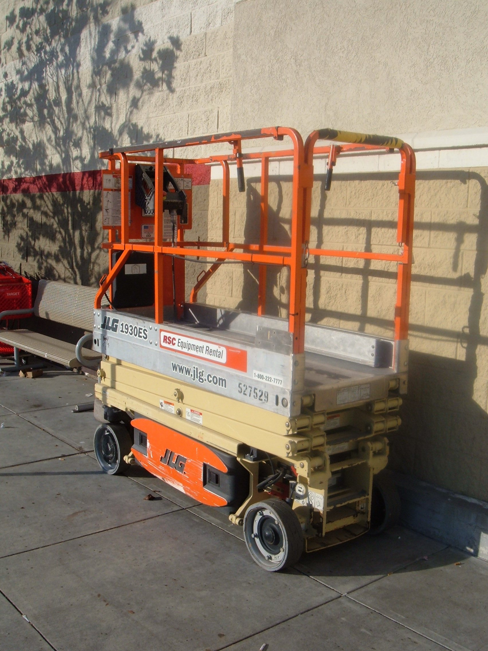 JLG 1930ES scissor lift